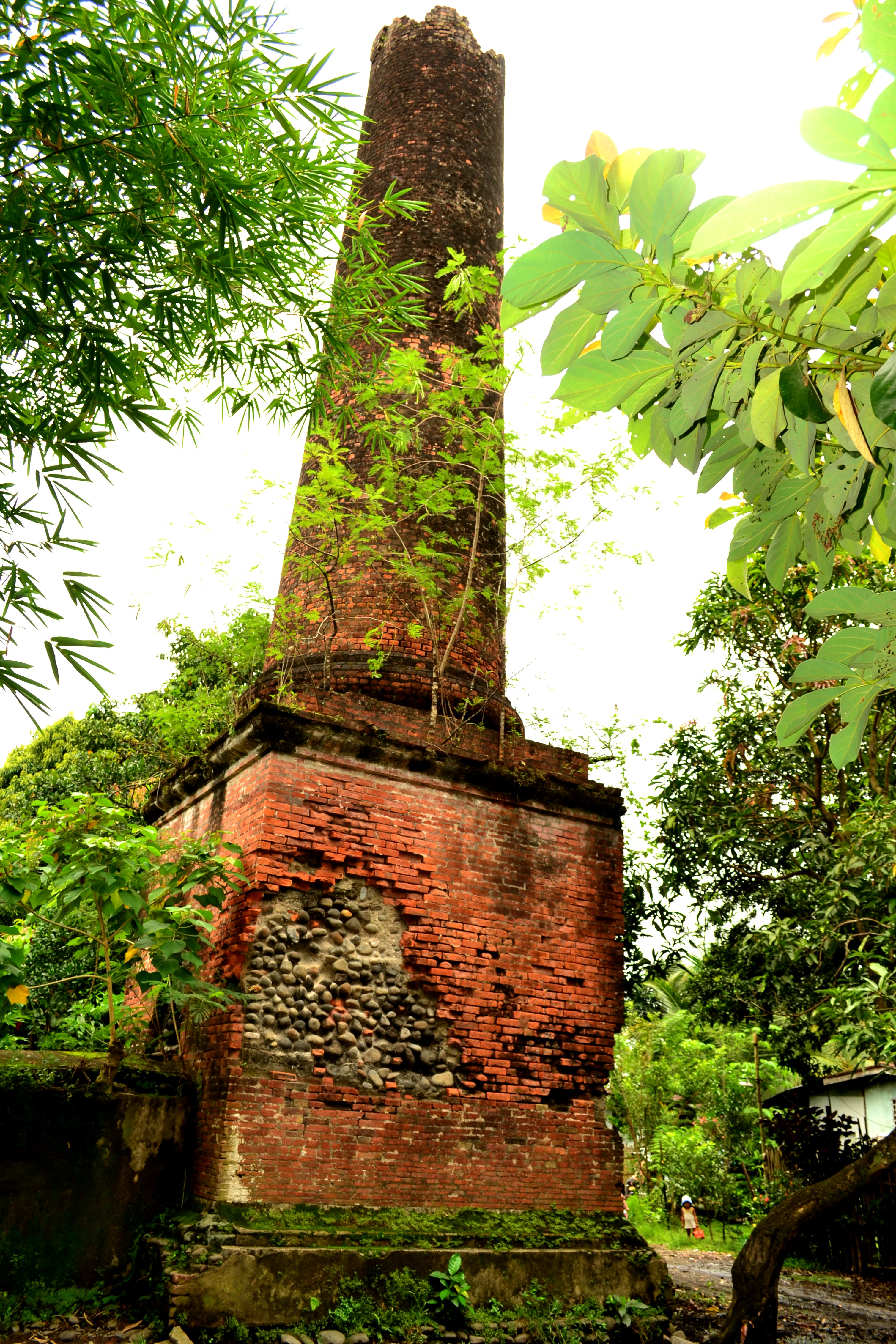 Once operational, this sugar mills is housed of hundred of workers during its golden years where the demand of Muscovado Sugar is high in the entire province and other neighboring provinces in Western Visayas.